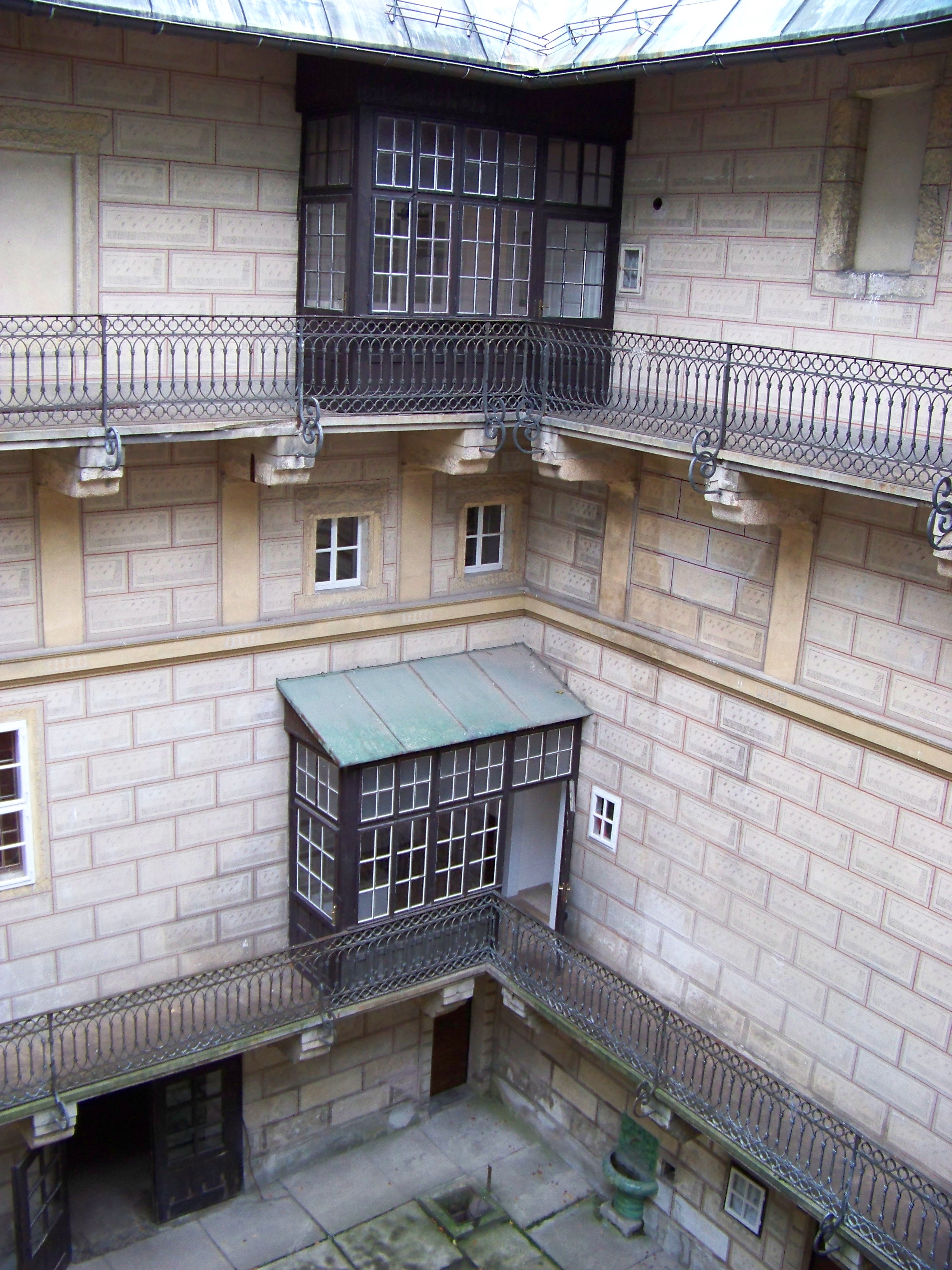 Houska Castle, Česká Lípa District, Liberec Region, the Czech Republic. The inner courtyard, acces balconies. - Google Maps - Google Earth